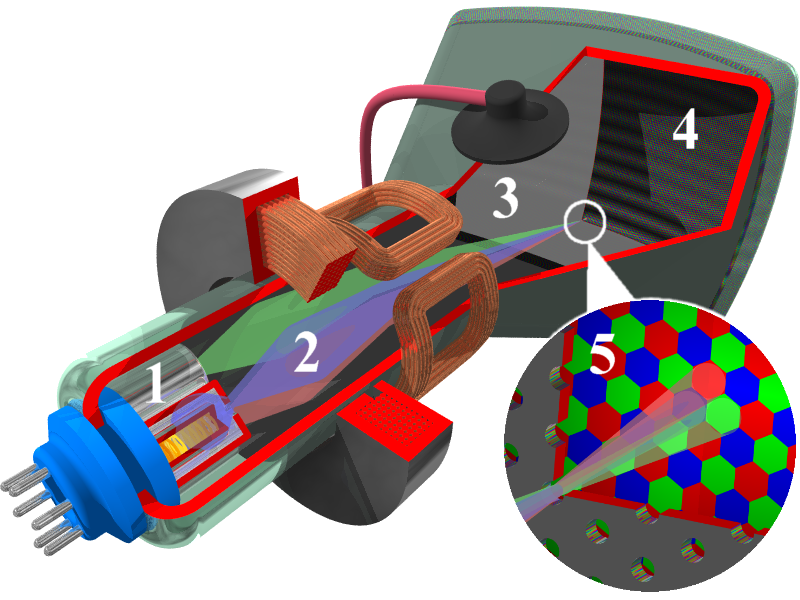 Please see the improved version: Image:CRT color enhanced.png. Illustration showing the interior of a cathode-ray tube for color televisions and monitors. Numbers in the picture indicates: Electron guns Electron beams Mask for separating beams for red, green , and blue part of displayed image Phosphor layer with red, green, and blue zones Close-up of the phosphor-coated inner side of the screen This image was rendered using the Persistence of Vision Raytracer ( - merged with the close-up insert and numbers added using a graphics software package. Below is the scene description used for rendering the overview and close-up images. Created by Søren Peo Pedersen